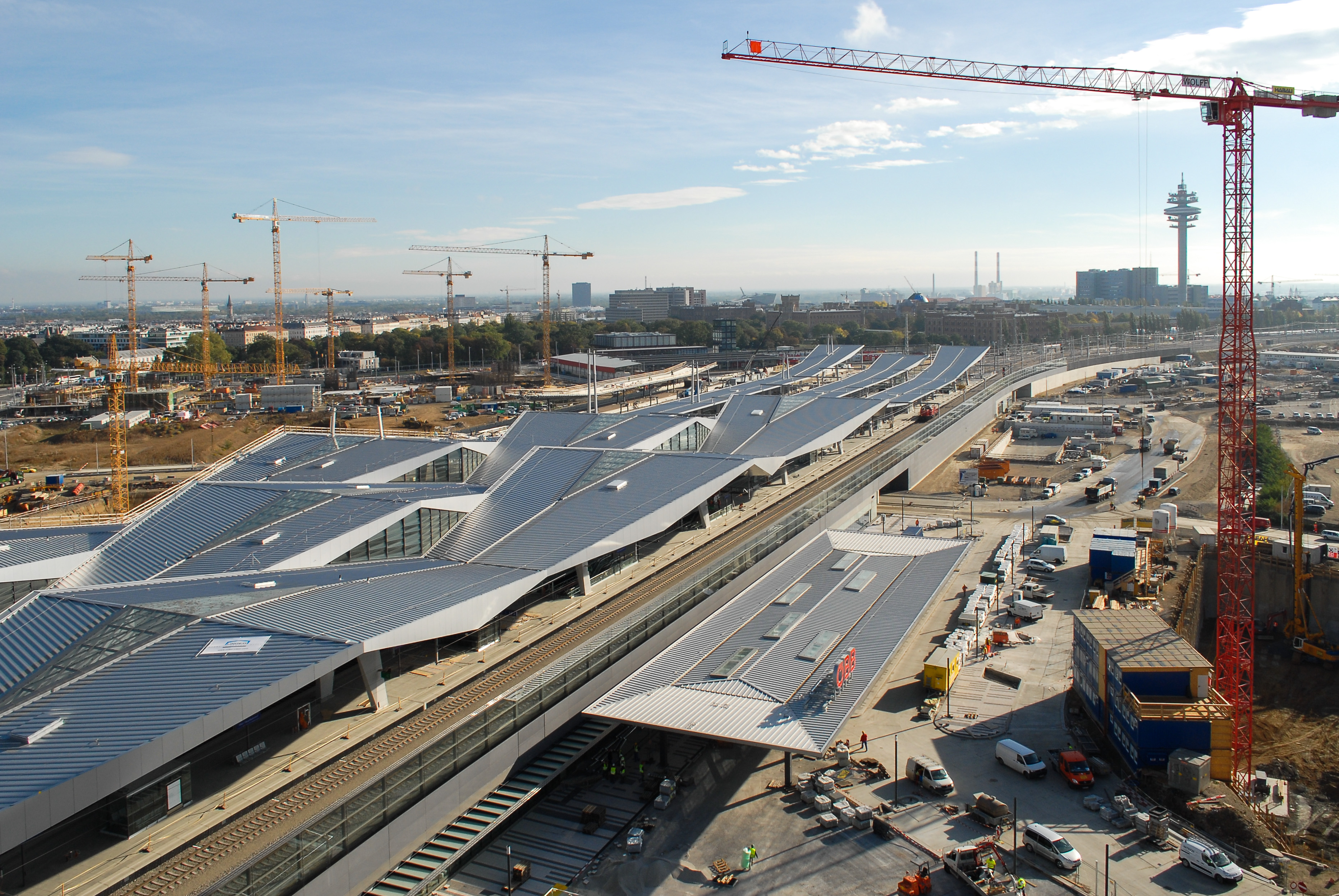 Vienna Central Station - october 2012